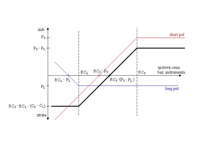 VERTICAL BULL PUT SPREAD